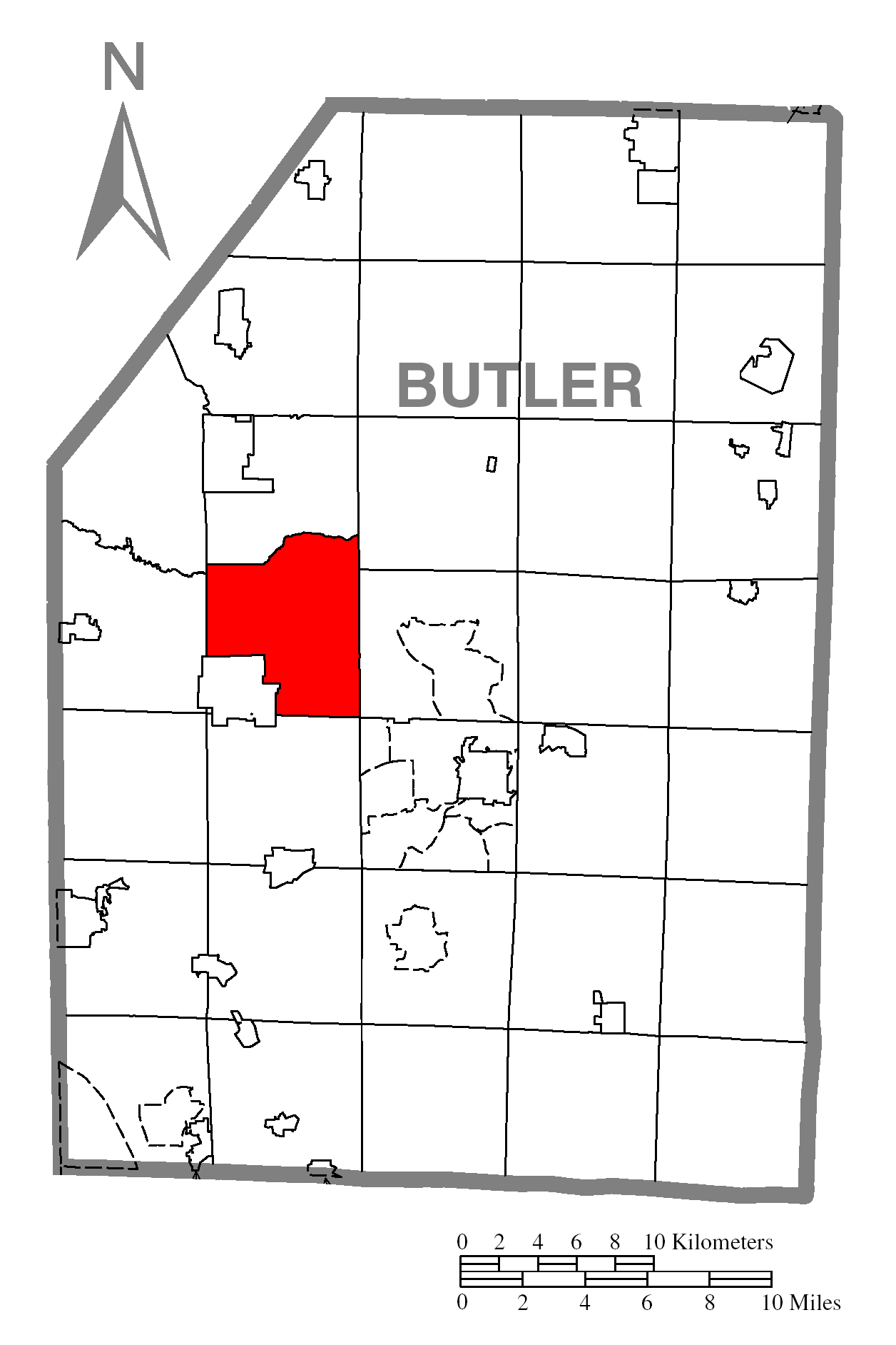 A map of Butler County showing Franklin Township, Pennsylvania (alternate) highlighted on the map.